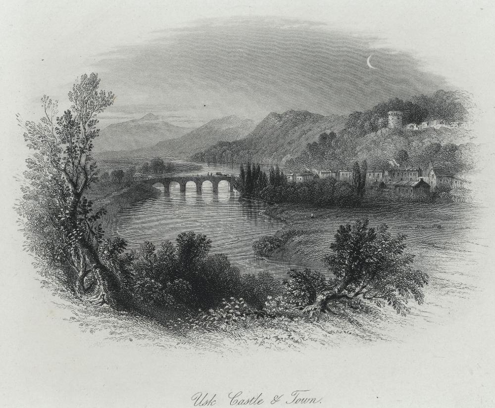 General view of Usk showing the River Usk and bridge, the castle and the town.